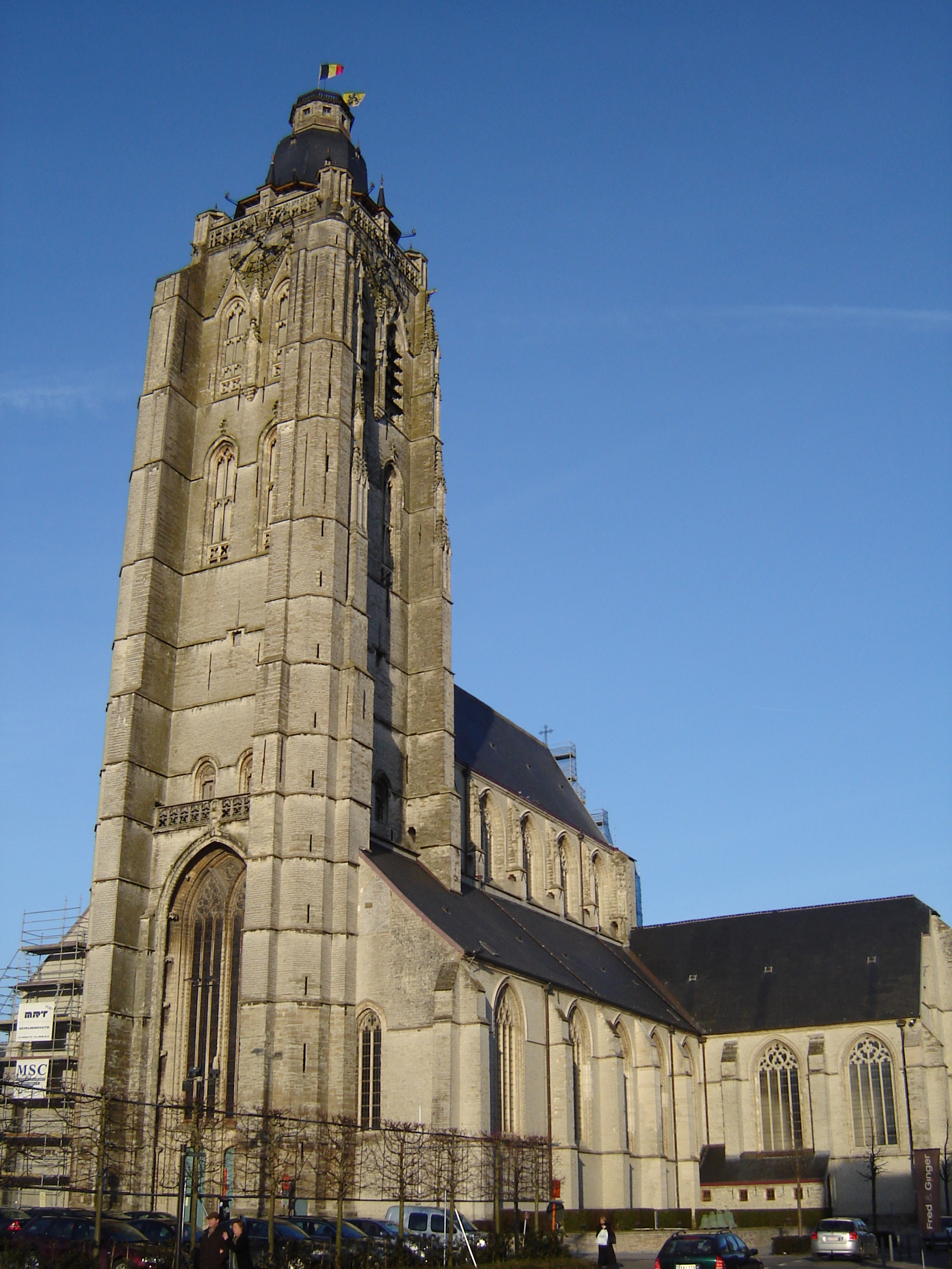 Church of Saint Walpurga in Oudenaarde. Oudenaarde, East Flanders, Belgium.